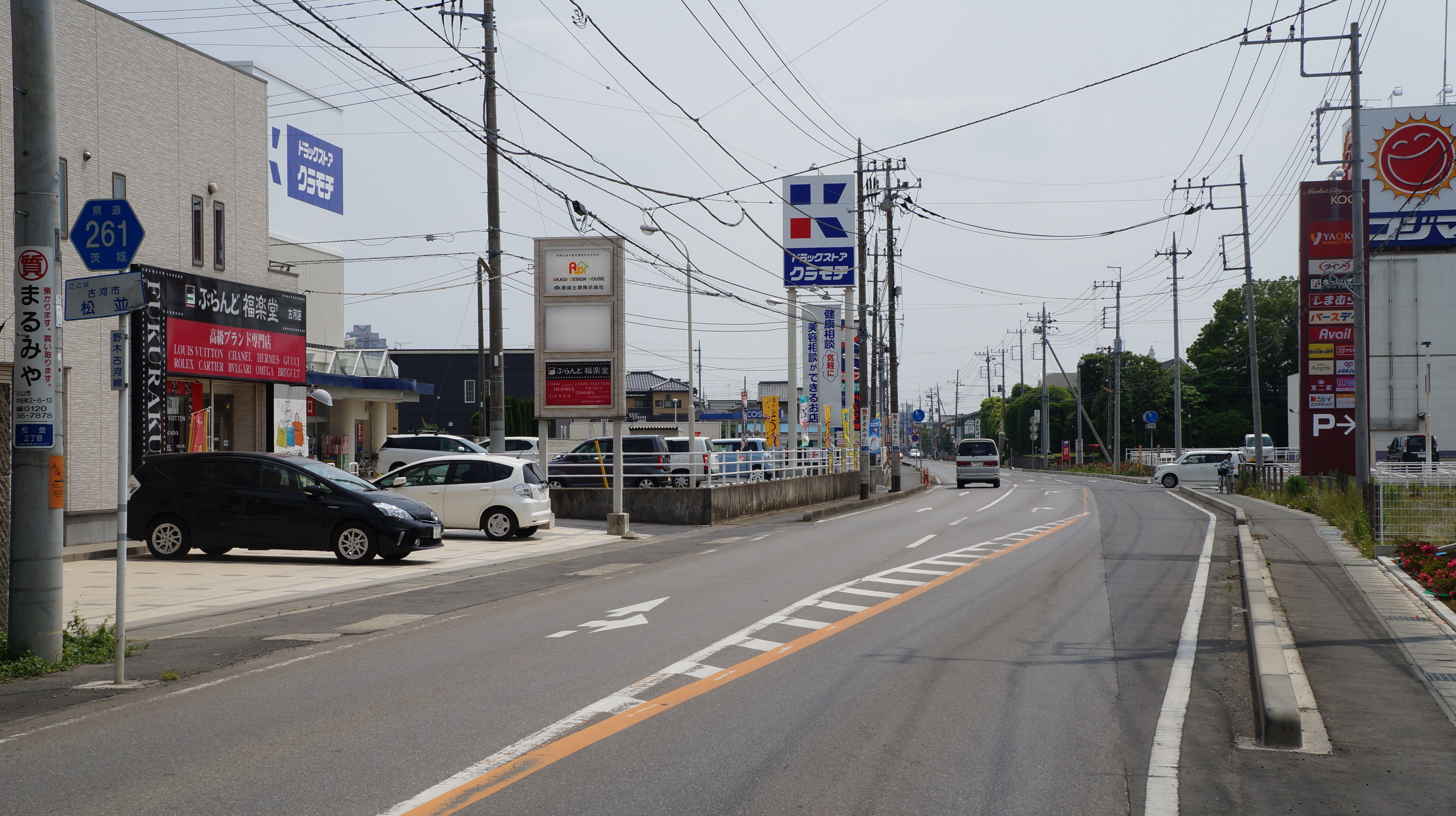 Tochigi and Ibaraki prefectural road 261, Nogi-Koga line, in Matsunami, Koga, Ibaraki, Japan.